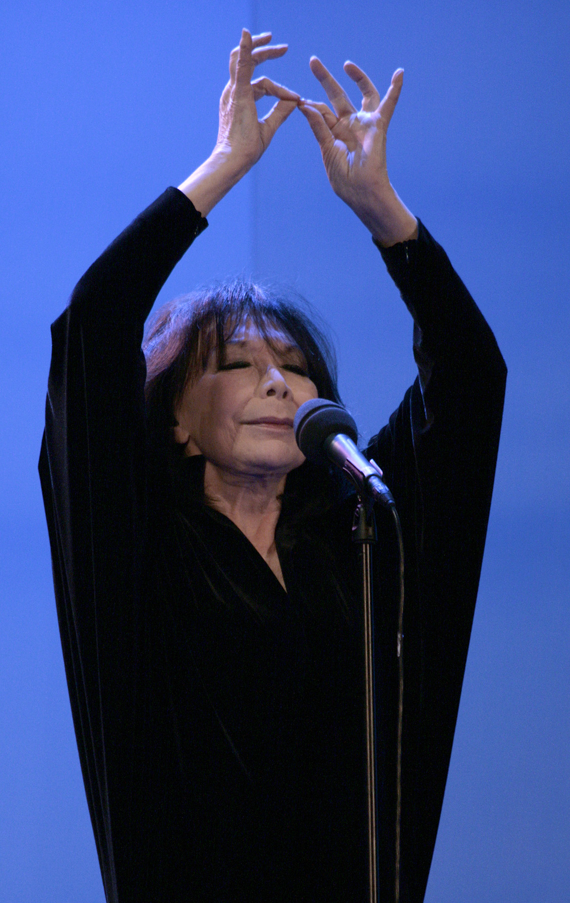 Juliette Gréco; concert at the opening of the Vienna Festival 2009